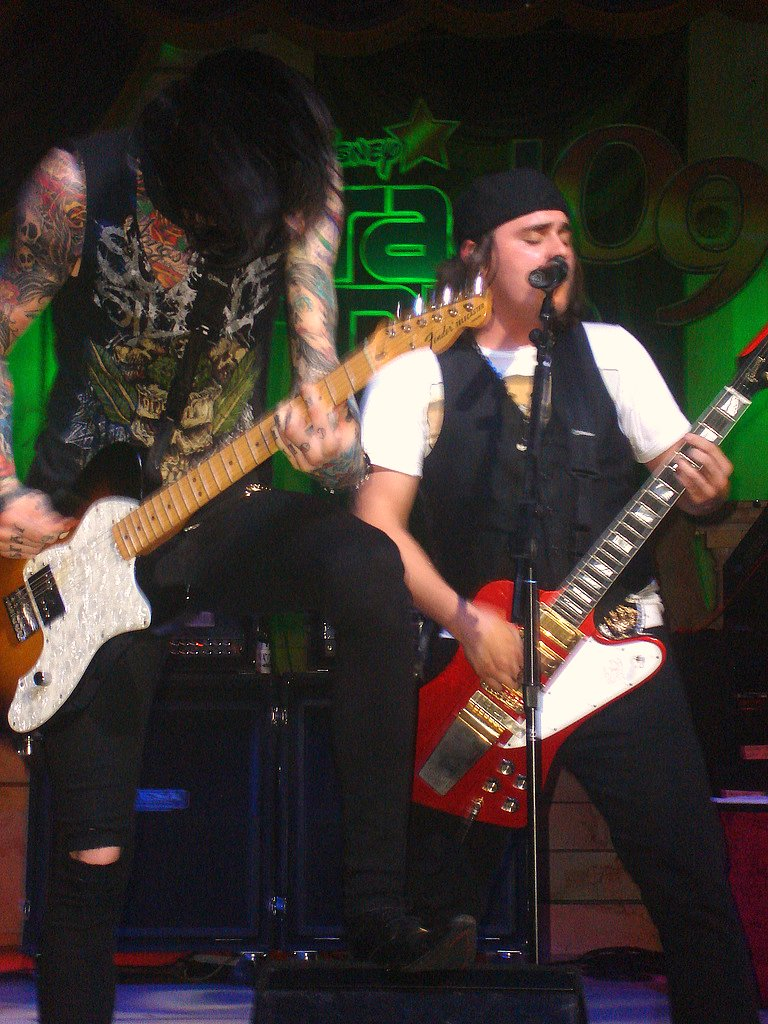 Metro Station @ MGM Studios in Disney World